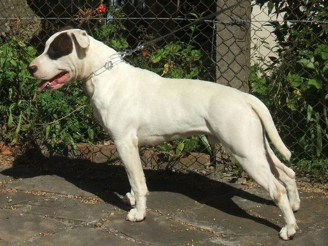 Dog called "Dino de Tasgard", a tipical Brazilian Dogge (Dogue Brasileiro), also known as Brazilian dogo, a dog breed from Brazil.